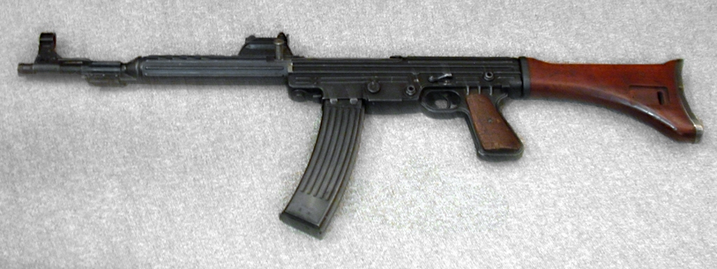 Mkb 42W (Walther)